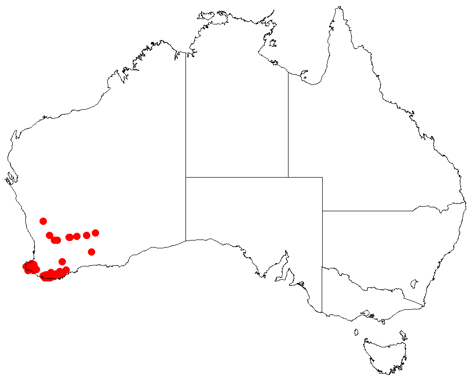 Hakea falcata Occurrence data downloaded from Australasian Virtual Herbarium on 22 November 2018 using